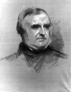 portrait of Victorian writer Jacob Omnium